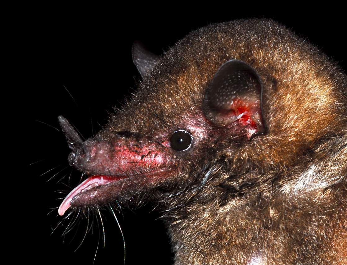 A nectarivorous bat Lichonycteris sp in Brazil.